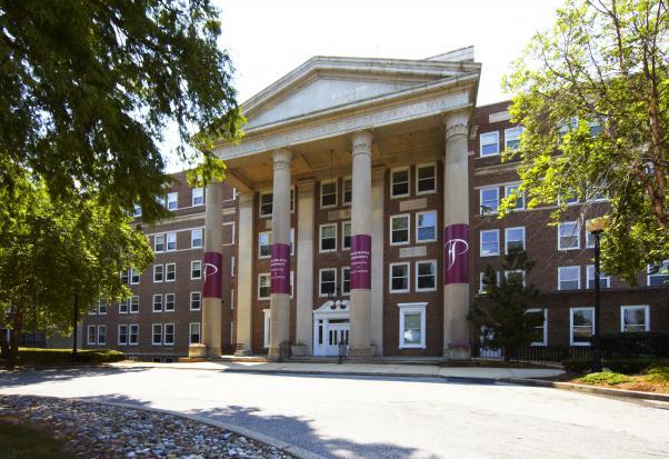 Falls Center Front